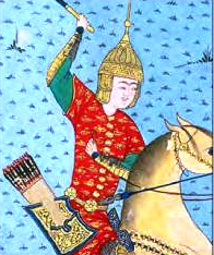 Painting of Guraza in The Shahnama of Shah Tahmasp